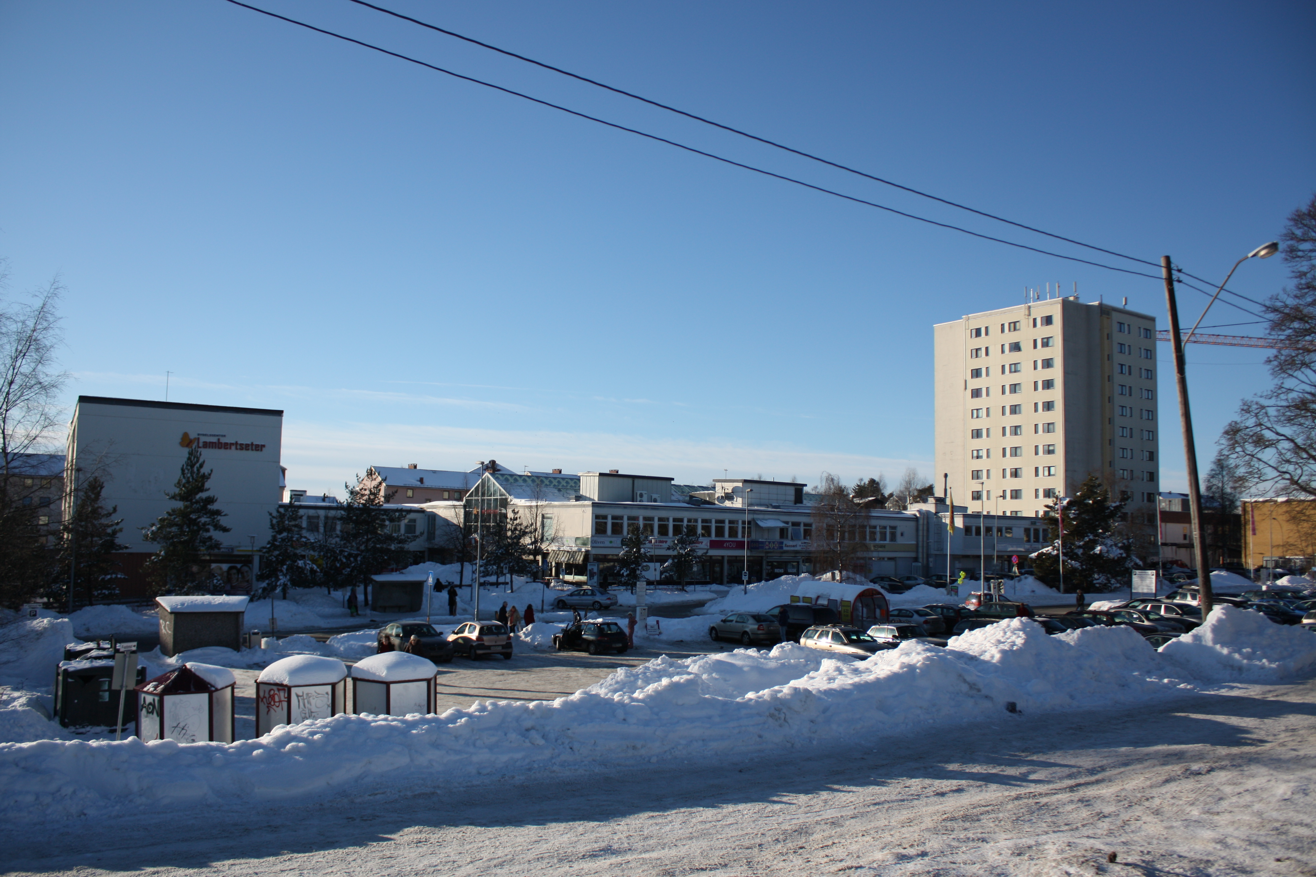 Image of Lambertseter senter